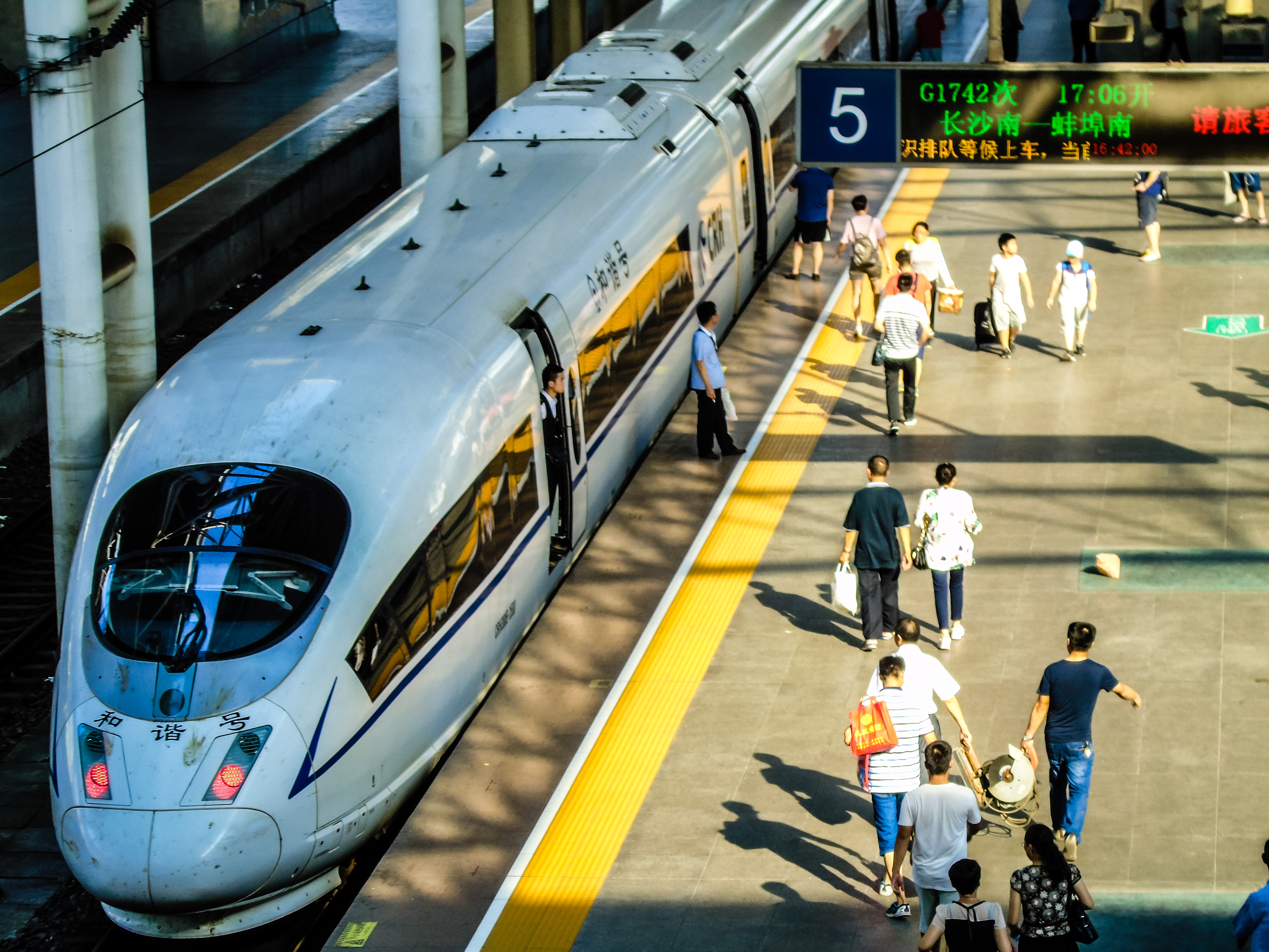 G1742 to Bengbunan